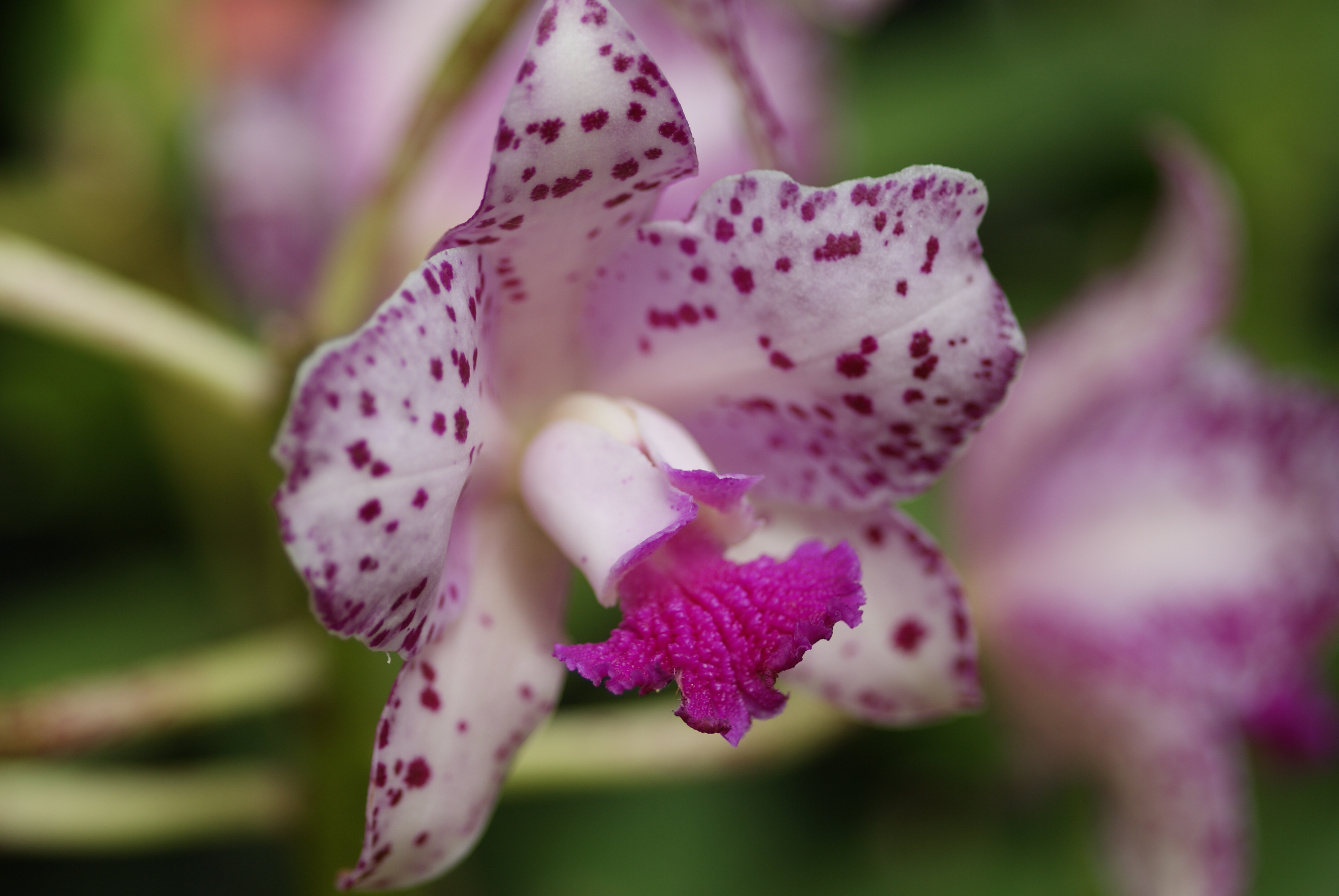 Cattleya amethystoglossa